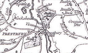 Prestbury village as shown on Bryant's map of the County Palatinate of Cheshire, 3 May 1831 (Part of a photocopy of a copy of a map held at Cheshire and Chester Archives and Local Studies)